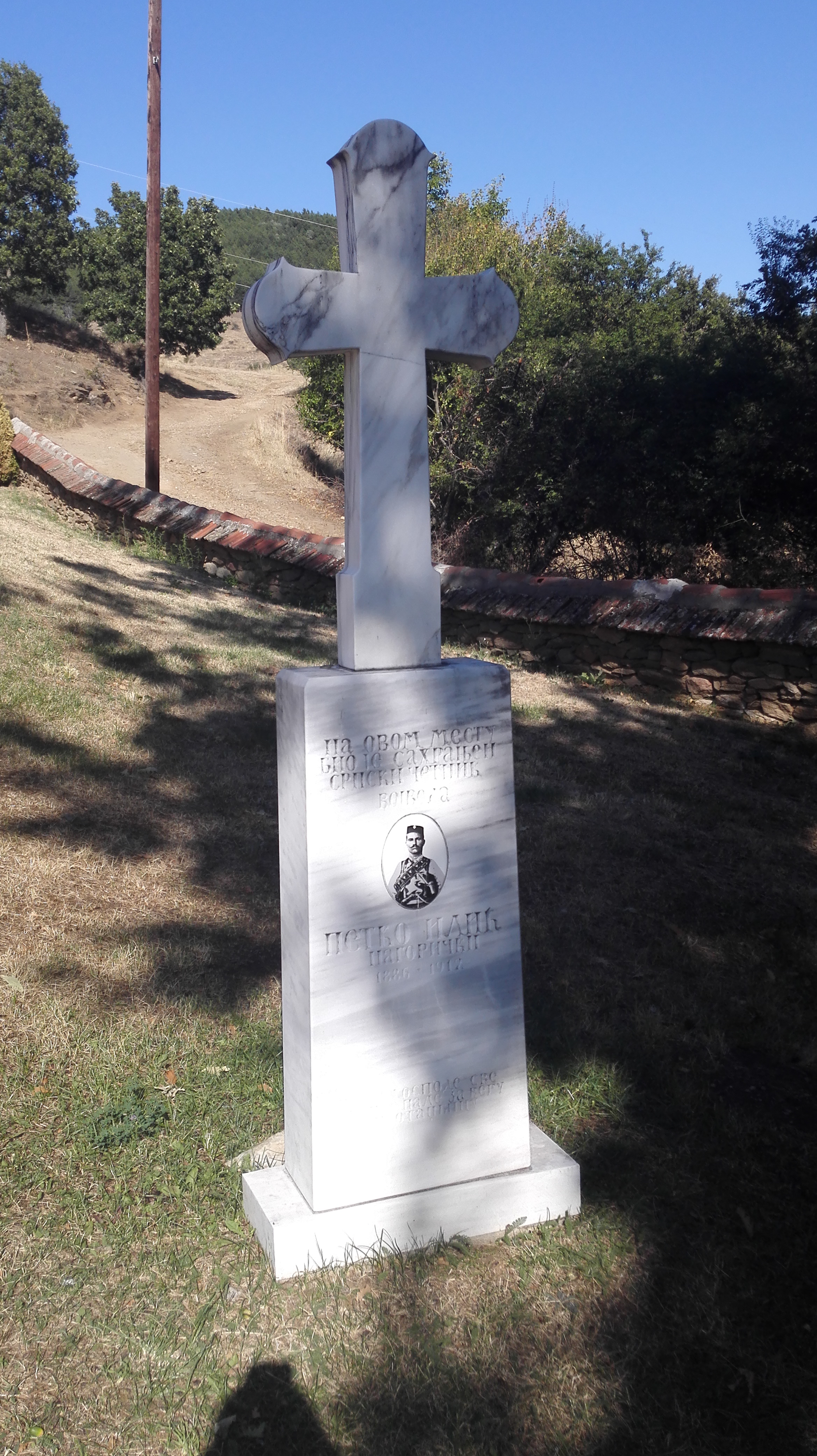 Monastery of Saint Pantelejmon, Lepčince